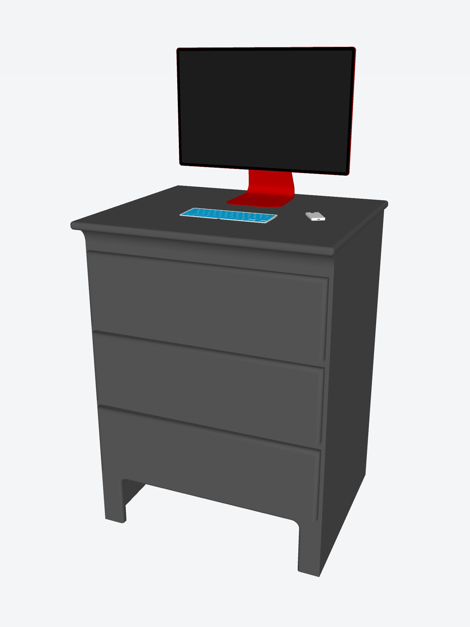 I hereby affirm that I, (kcida10) the creator of ( Standing_dresser_desk ) is my work. I agree to publish that work under the free license This file is made available under the Creative Commons CC0 1.0 Universal Public Domain Dedication. The person who associated a work with this deed has dedicated the work to the public domain by waiving all of their rights to the work worldwide under copyright law, including all related and neighboring rights, to the extent allowed by law. You can copy, modify, distribute and perform the work, even for commercial purposes, all without asking permission. I acknowledge that by doing so I grant anyone the right to use the work in a commercial product or otherwise, and to modify it according to their needs, I am aware that this agreement is not limited to Wikipedia or related sites. Modifications others make to the work will not be claimed to have been made by me. I acknowledge that I cannot withdraw this agreement, and that the content may or may not be kept permanently on a Wikimedia project. Kcida10 La Crosse, WI 54603. I am the designer and creator of the 3D model ( Standing_dresser_desk ) on Sketchup Make's open source repository. 29Nov15